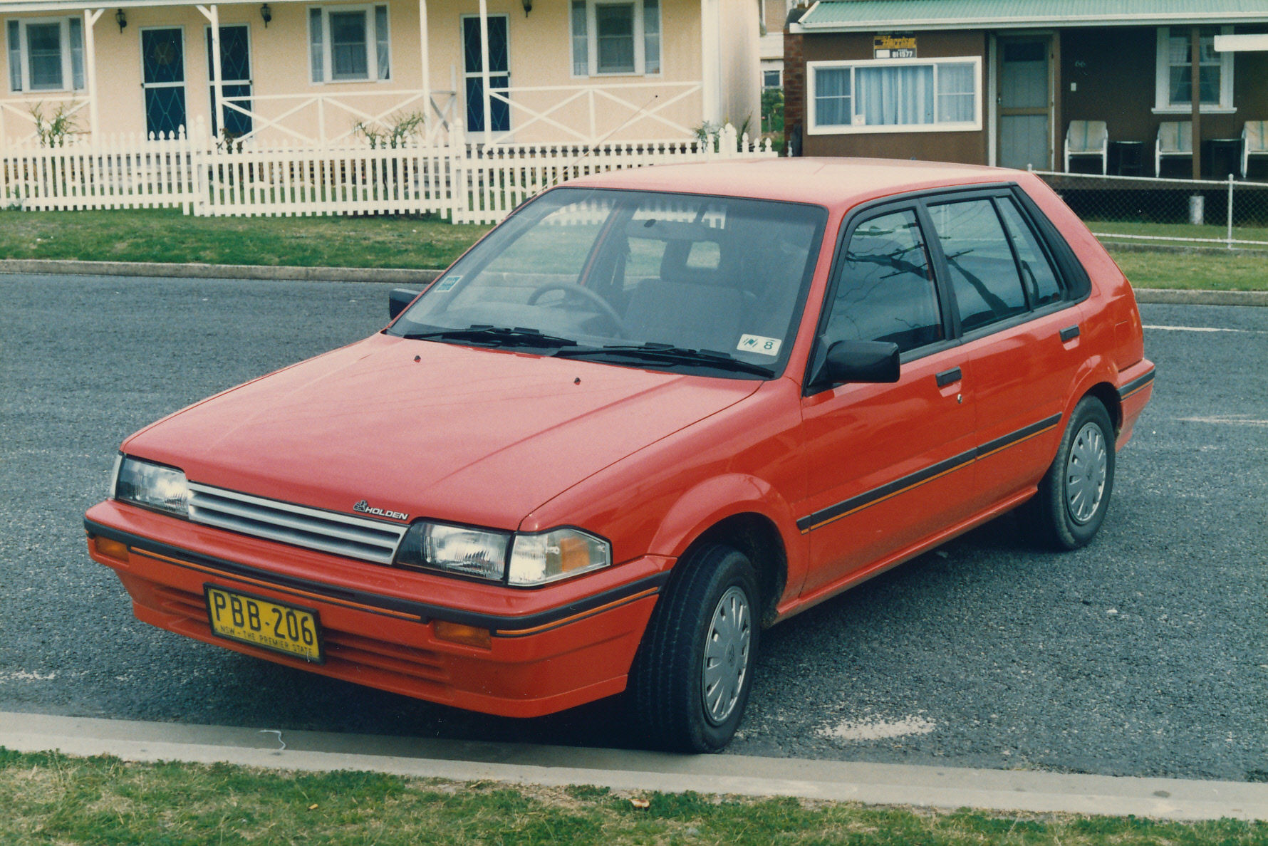 This image is a scan of a 35 mm print taken in 1989